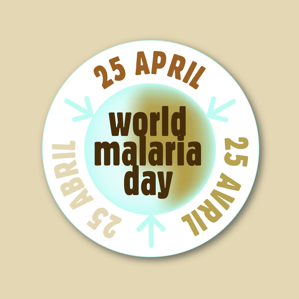 World Malaria Day Button (english)